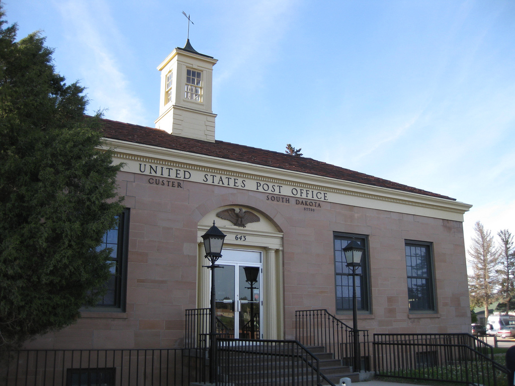 Post office in Custer, South Dakota, United States